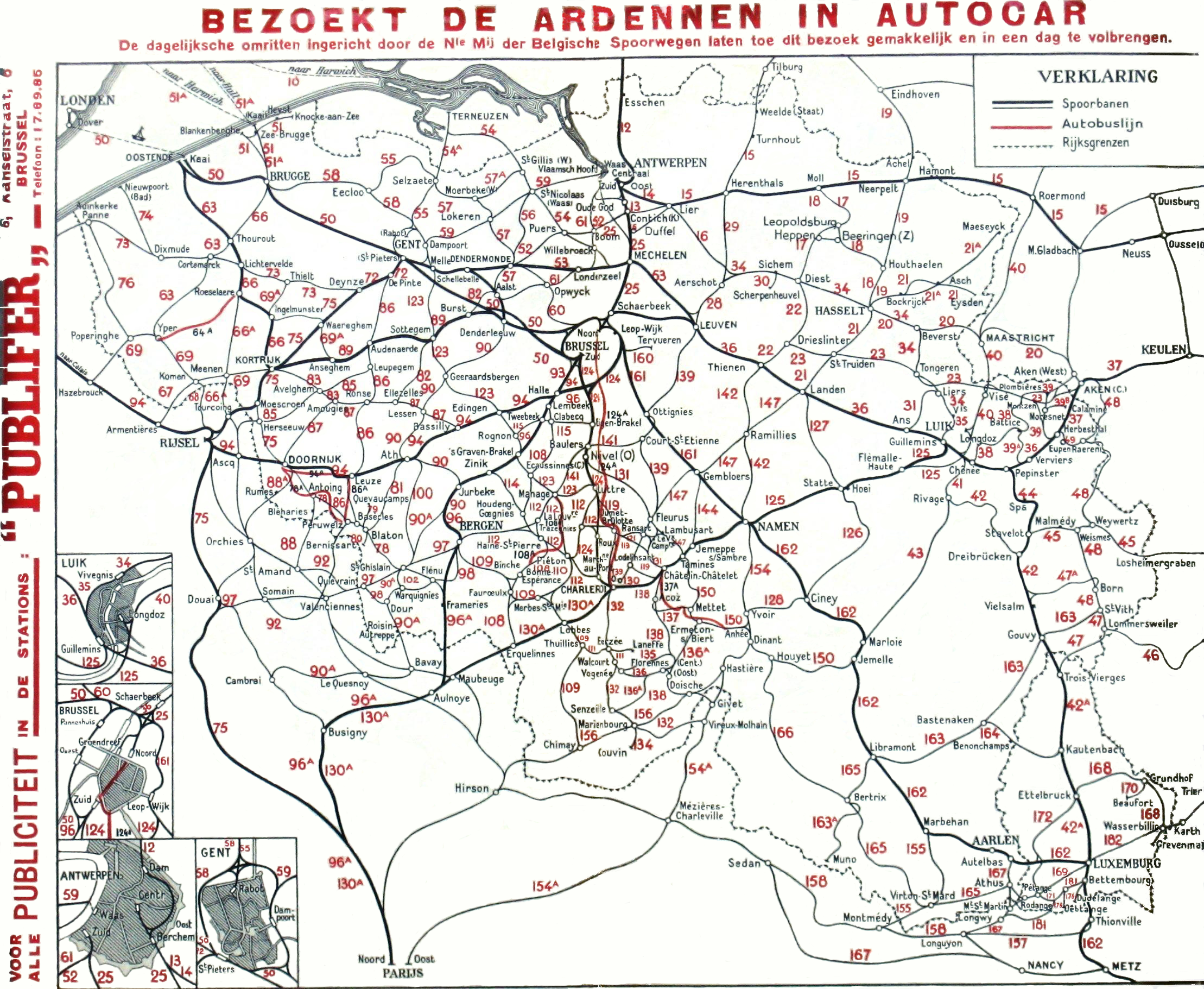 Railway map off the Belgian Railways in 1933. Timetable off the summer 1933. Before the Brussels North South connection. Many lines have been closed. The red lines are buslines.